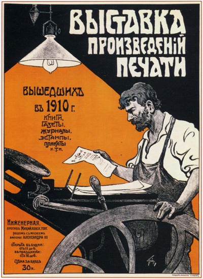 Poster of book exhibition, by Vladimir Taburin